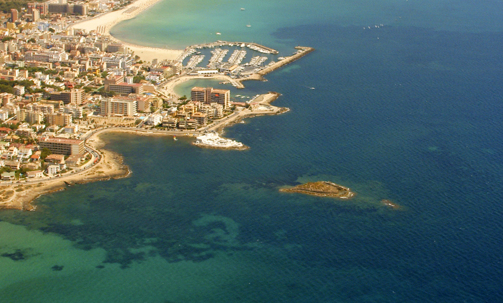 aerial photo of 'Platja de Palma'